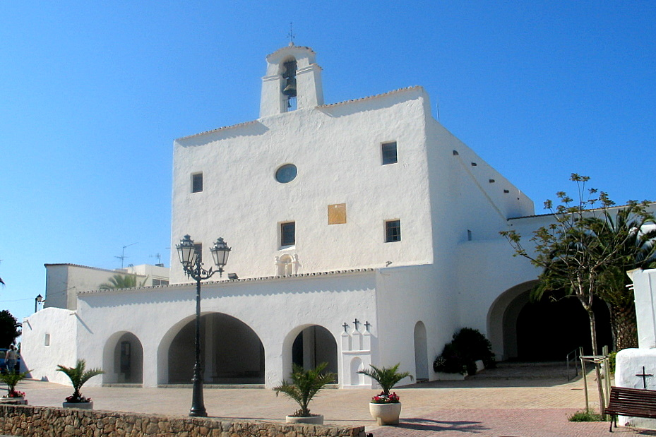 church of Sant Josep de sa Talaia on the Isle of Ibiza, Spain